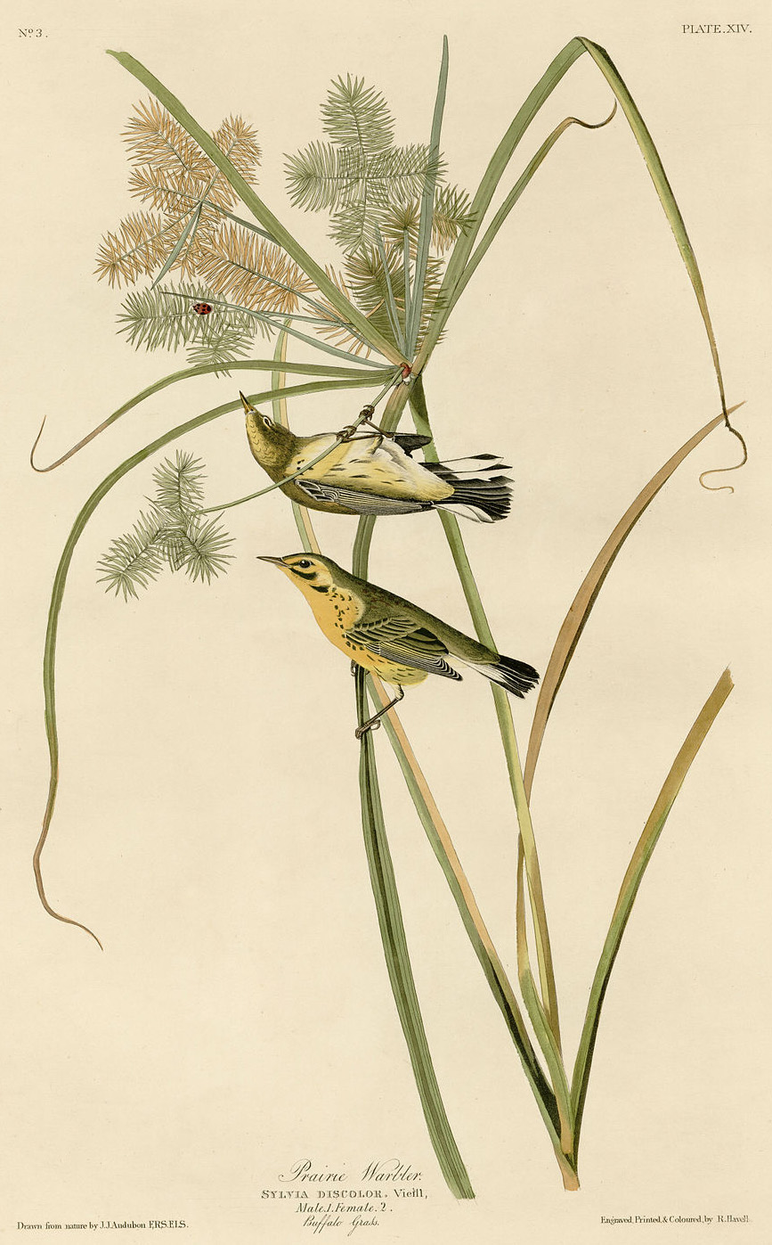 Plate 14 of Birds of America by John James Audubon depicting Prairie Warbler.